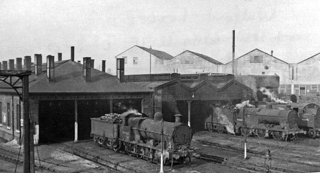 Watford Locomotive Depot. View northward from a platform at Watford Junction Station. This relatively minor Depot (coded 1C in the Willesden District of the LMS/LMR) had an allocation of 29 in 1950, devoted to local passenger and freight work, comprising:- 1 4-4-0, 6 0-8-0s, 2 0-6-0s, 12 2-6-4Ts, 5 2-6-2Ts, 1 0-6-0T and 2 0-4-4Ts. The Depot was closed on 29/3/65. Prominent in the photograph are 0-8-0 No. 49078 and 0-6-0 No. 44443.